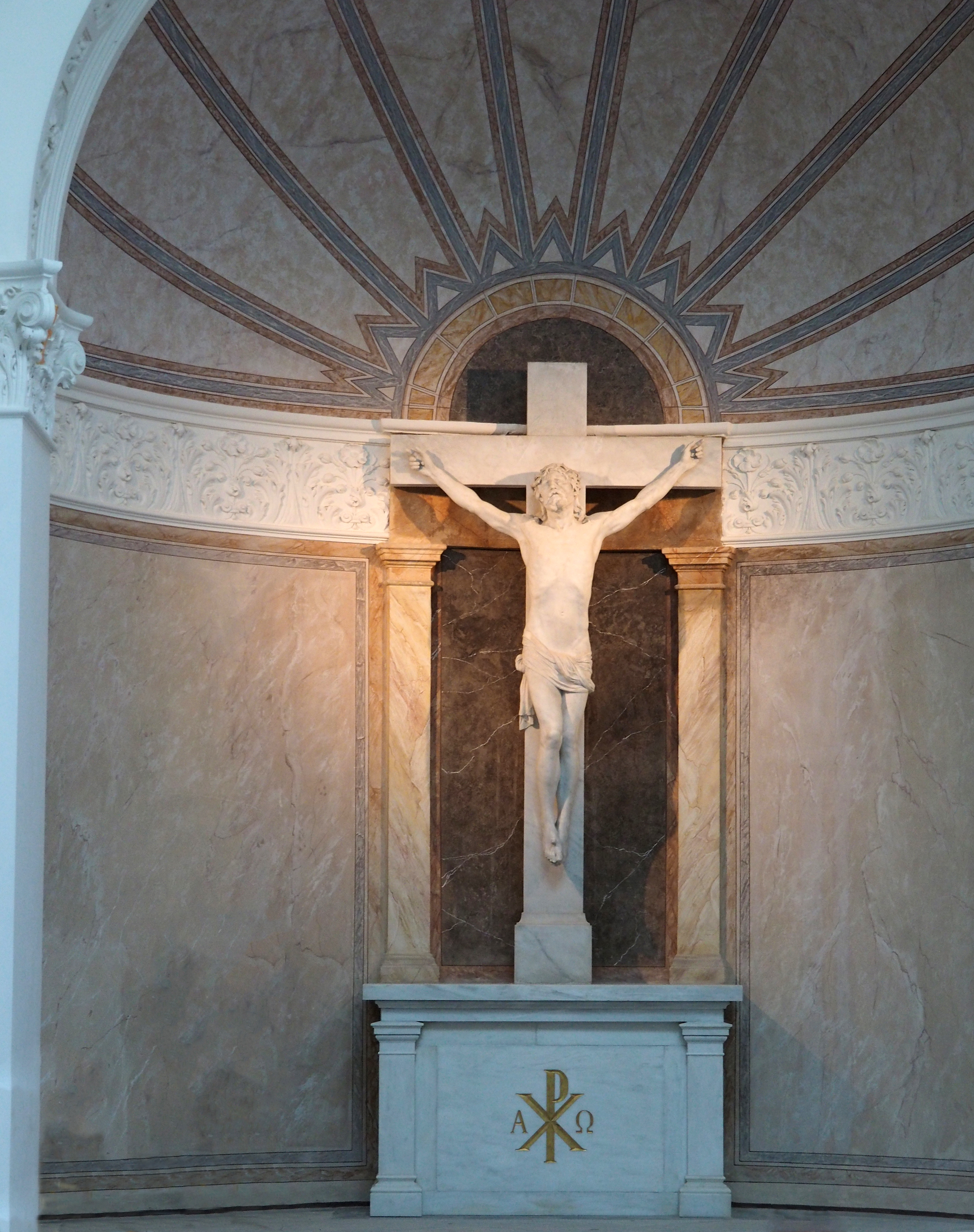 Interior of the Helenen-Paulownen-Mausoleum in Ludwigslust